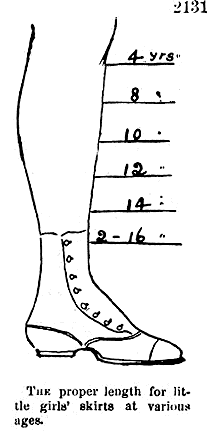 "The proper length for little girls' skirts at various ages", a diagram from Harper's Bazar, 1868, showing a mid-Victorian idea of how the hemline should descend from slightly longer than knee-length for a girl of 4 years old to almost ankle-length for a girl of 16.